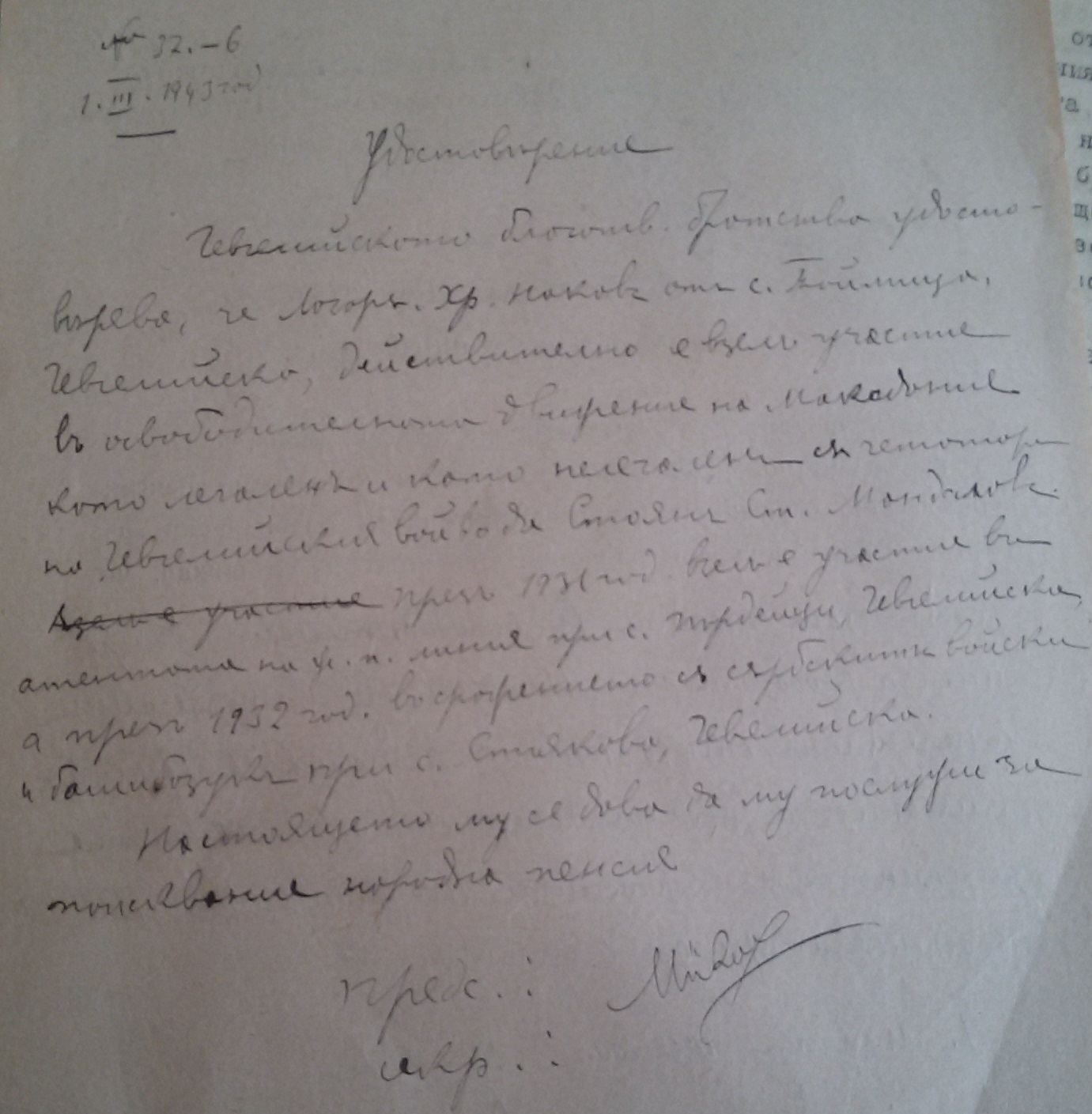 Gevgeli Brotherhood Document 2